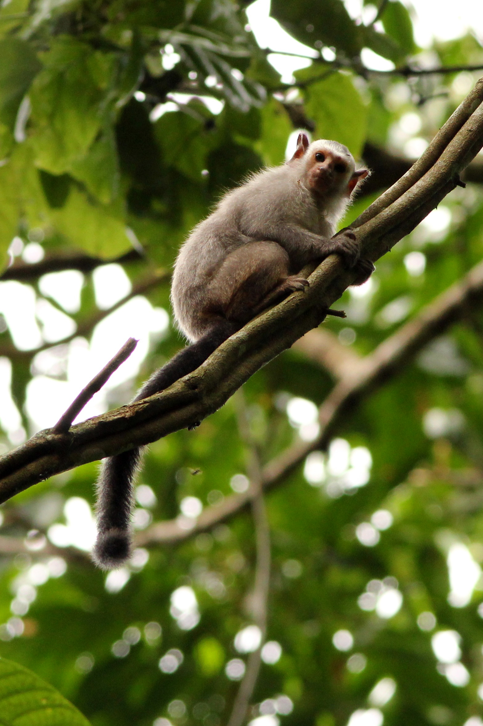 Snethlage’s Marmoset (Mico emilae) in Cristlino Jungle Lodge, Alta Floresta, Brazil.